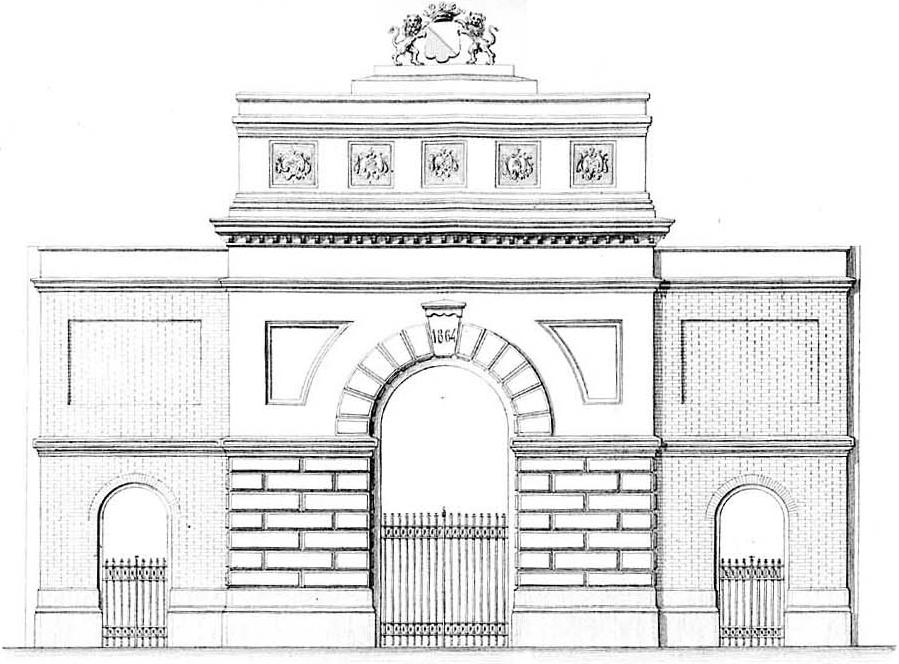 Market hall for butter, cheese and eggs, Mariaplaats, Utrecht. 1863-1864 (construction).